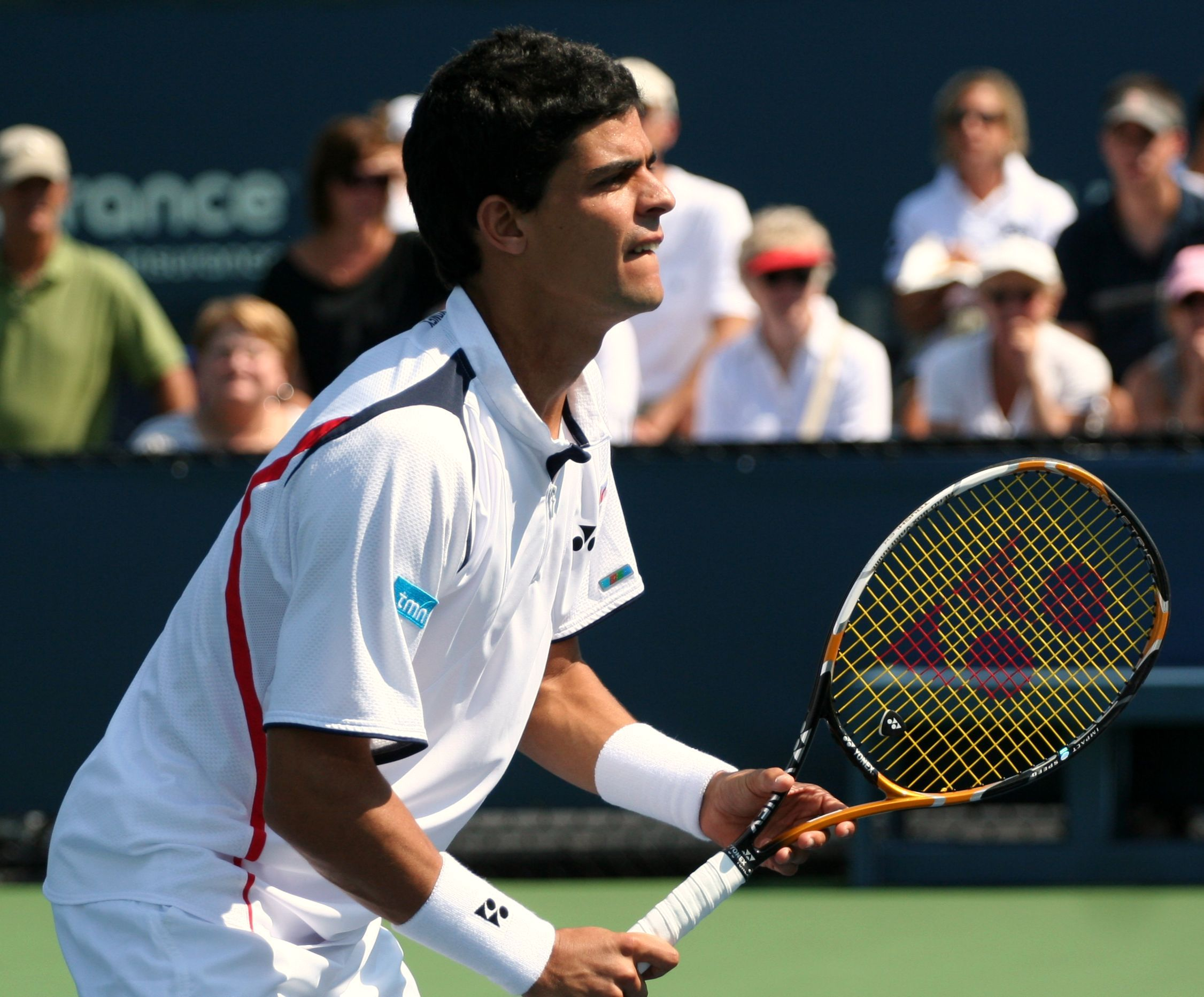 Rui Machado at the 2011 U.S. Open Friday, Sept. 2, 2011